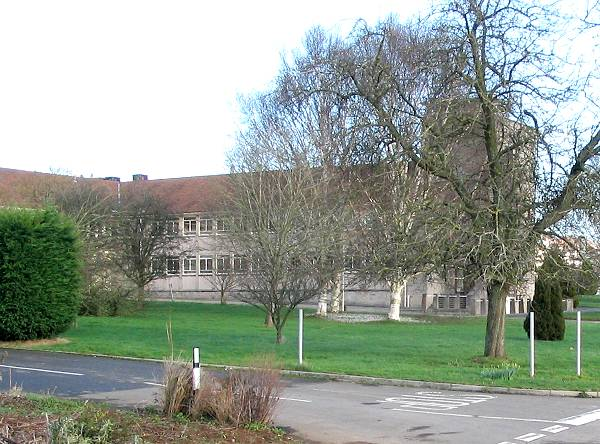 Long Ashton Research Station, Bristol. This view shows the Wallace Laboratory from the main entrance.